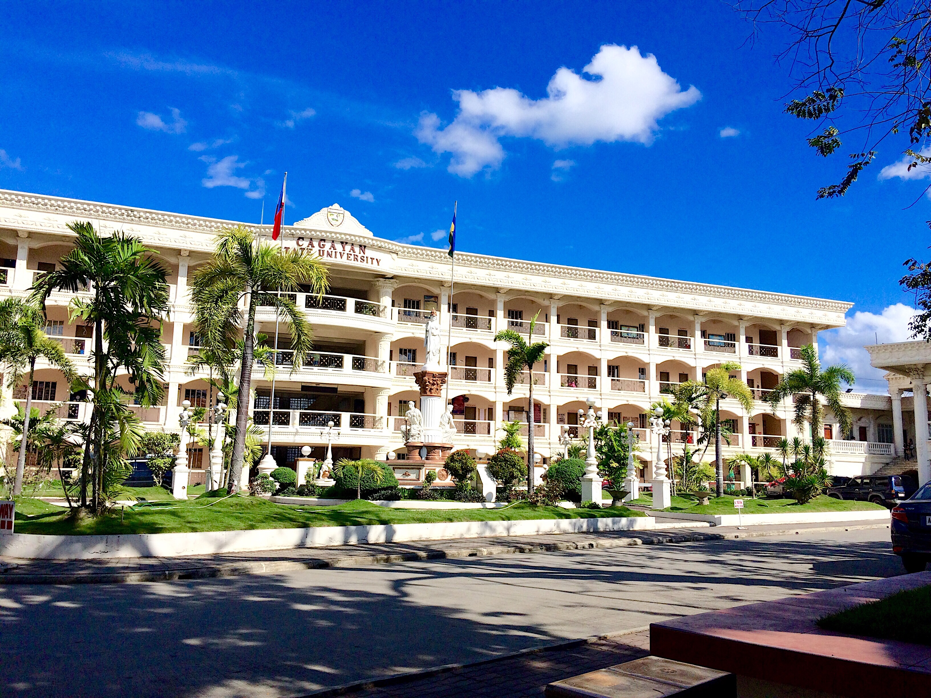 Athena Grounds, Cagayan State University, Tuguegarao City.